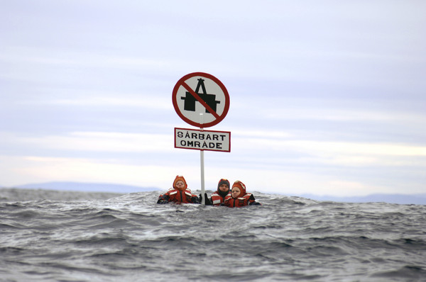 Young Friends of the Earth Norway demonstrates against oil drilling in the Norwegian arctic.